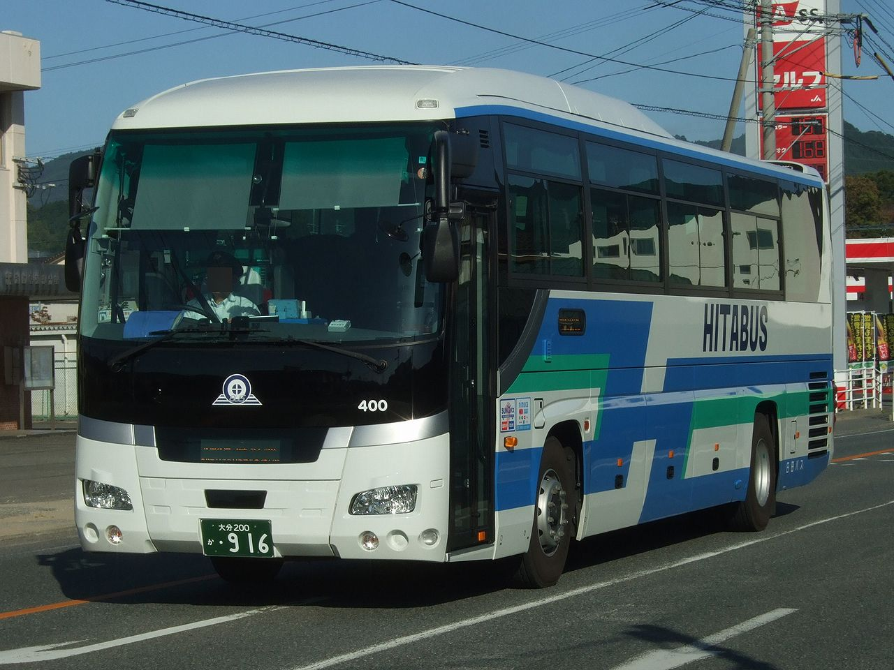 Company:Hita Bus Use:transit bus (express bus) Car license:OT 200 KA 916 code:400 Chassis manufacturer:Isuzu Motors Type:Gala Coachbuilder:J-BUS Location:in Asakura City, Fukuoka, Japan.